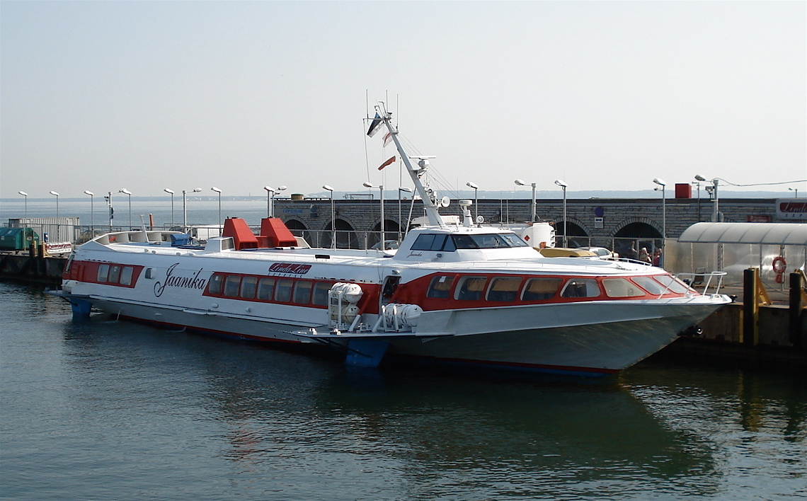 Olympia class hydrofoil Jaanika, operated by Linda Line on the route Helsinki-Tallinn